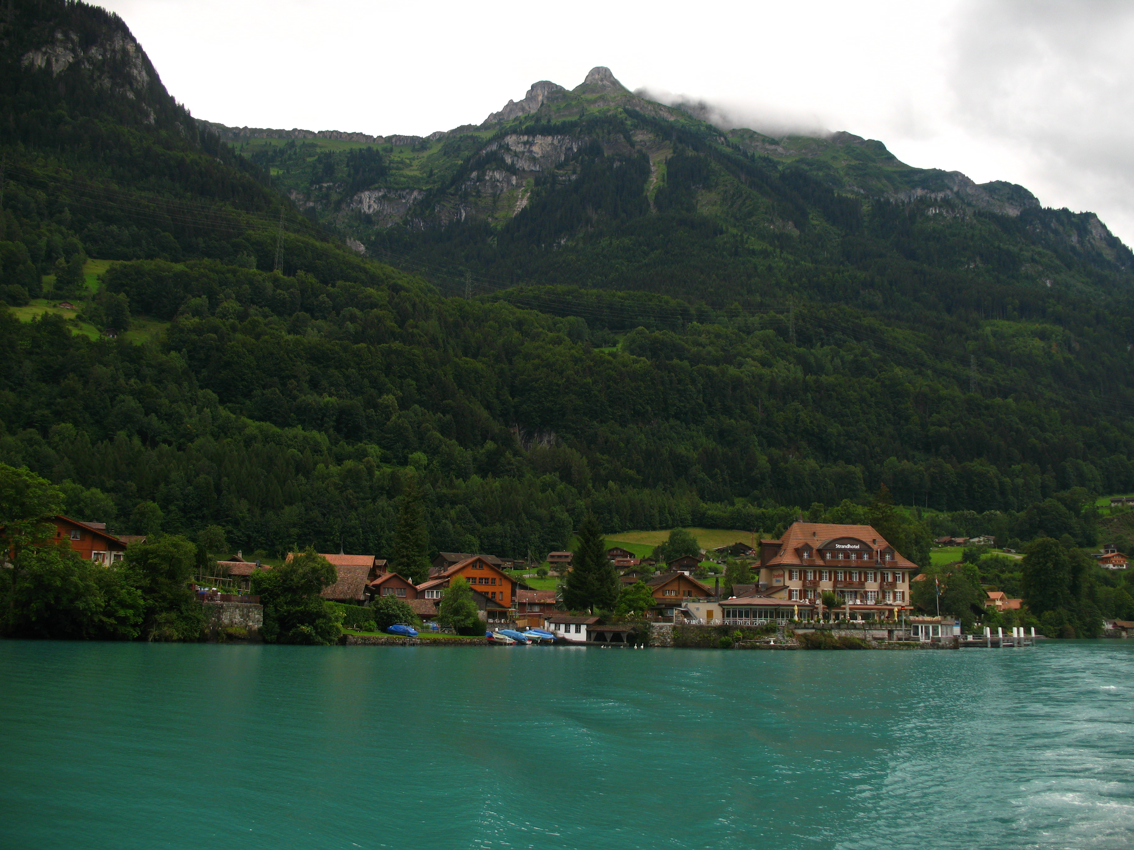 Lake Brienz, Iseltwald, Switzerland